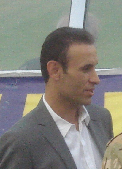 Yahya Golmohammadi, Persepolis-Malavan match, 2012-13 Iran Pro League